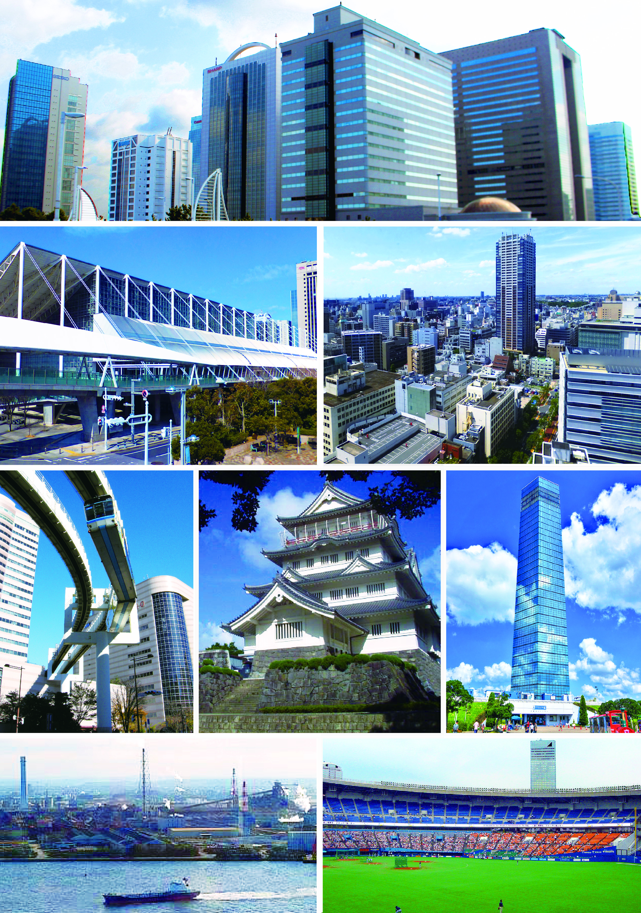 Chiba City montage.jpg